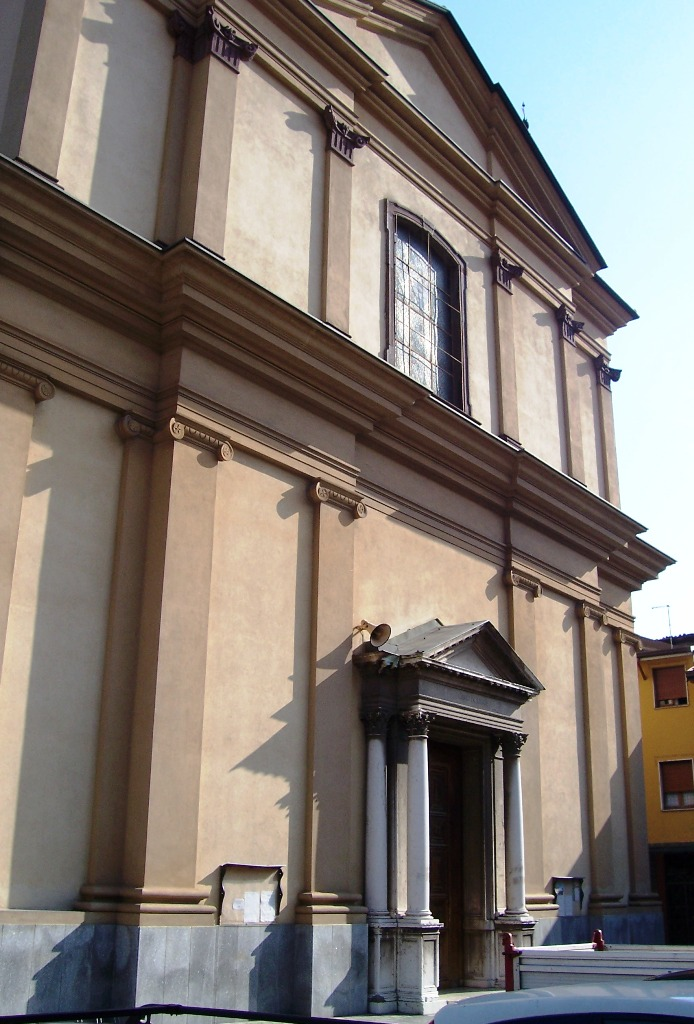 Pieve, Cividate Camuno, Val Camonica